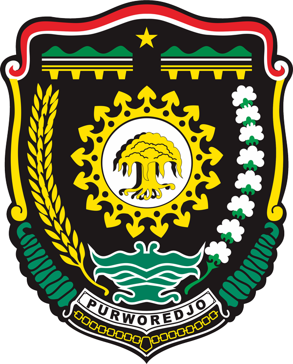 Coat of arms of Purworejo Regency, Central Java